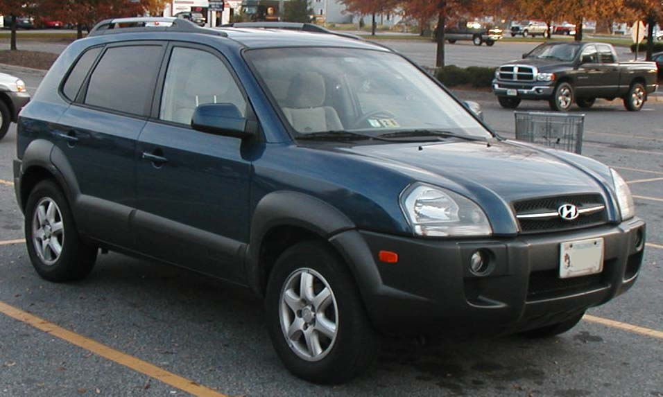 2005-2006 Hyundai Tucson photographed in Waldorf, Maryland, USA.